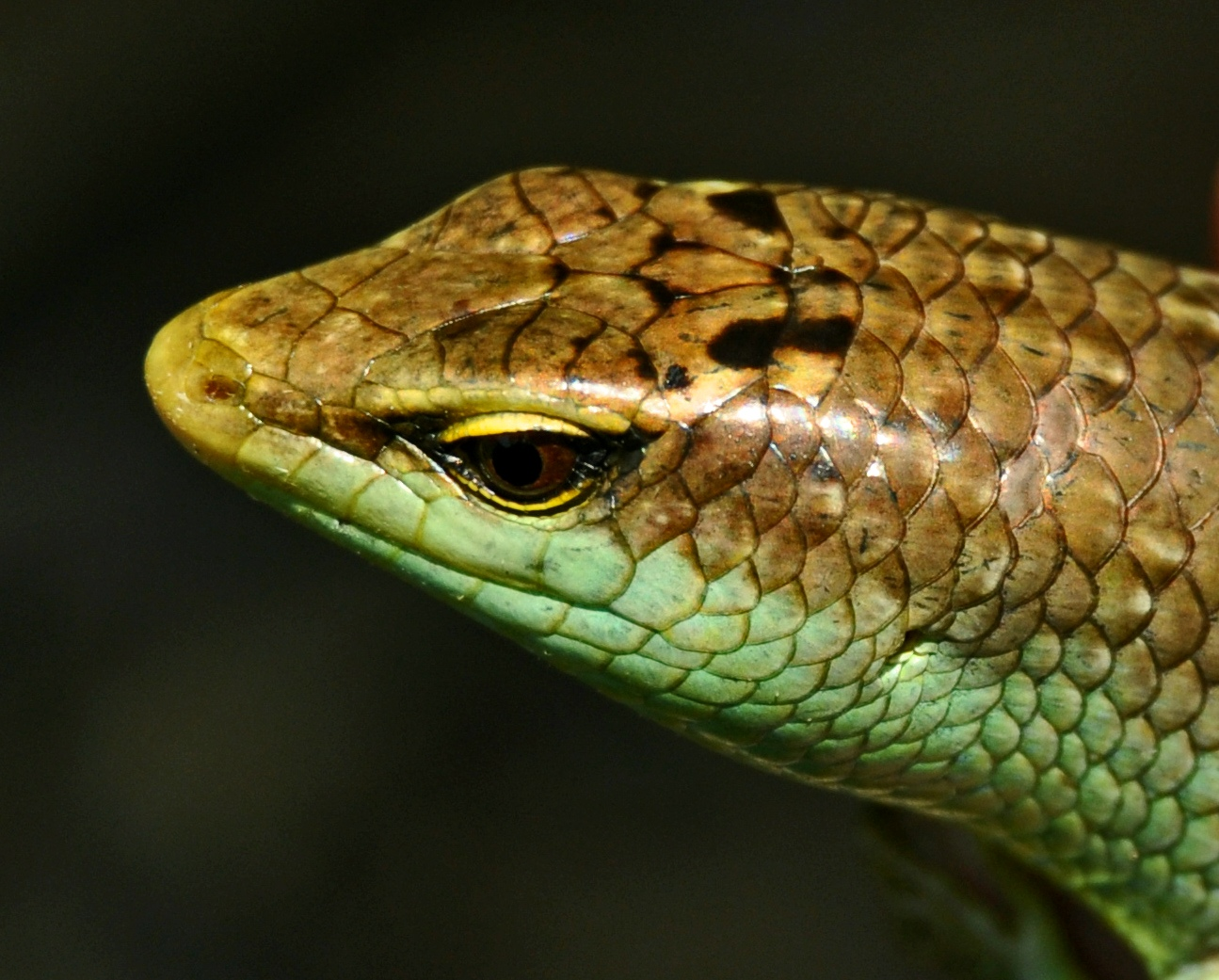 Dasia olivacea, Olive Tree Skink; head close up. From jungle rubber plantation (agroforest) in Merangin, Jambi, Sumatra, Indonesia